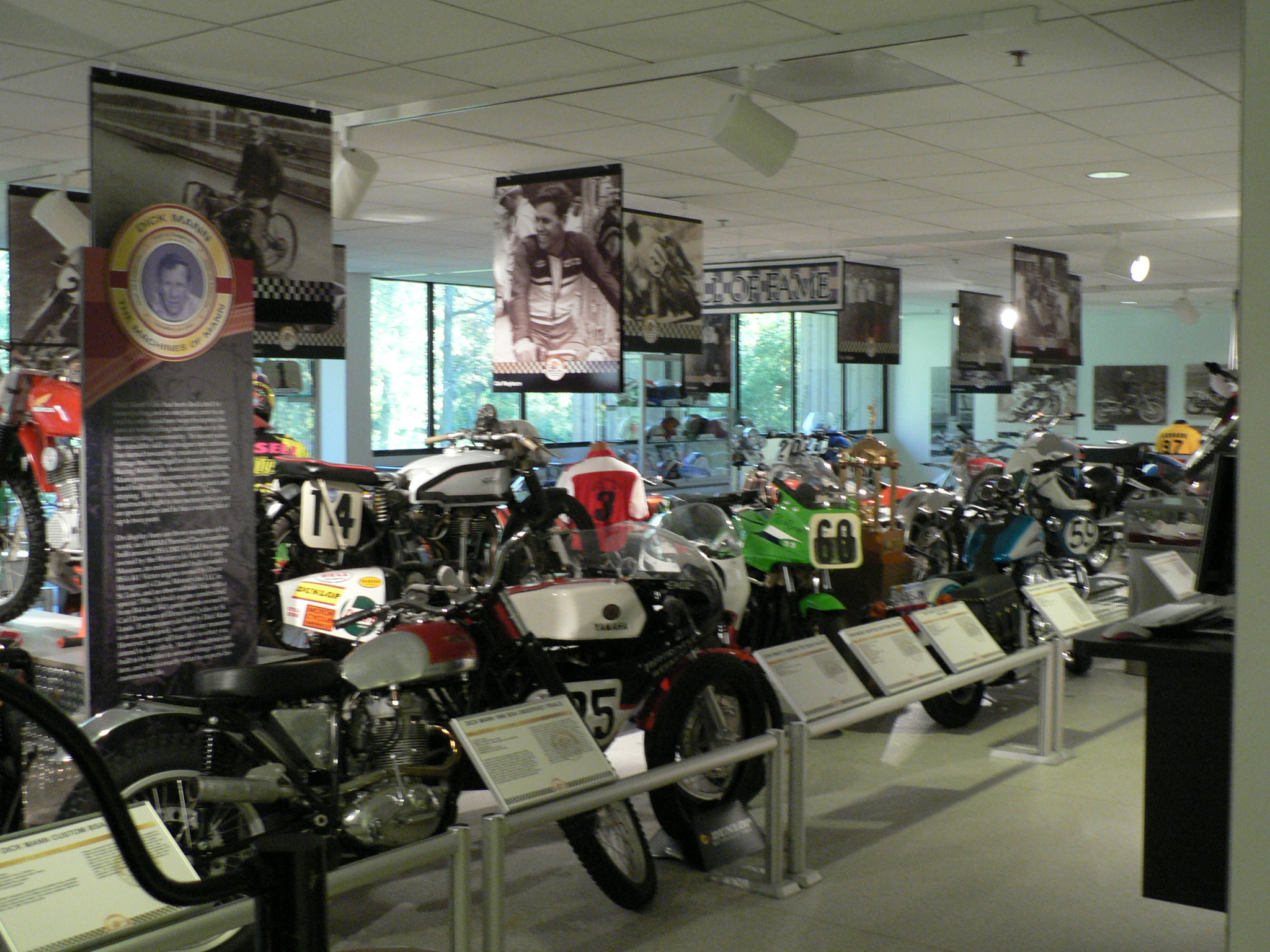 The showroom in the bottom floor of the AMA Hall of Fame in Columbus, OH. Lot of legendary bikes with a lot of good stories. I do love the look of these old bikes.